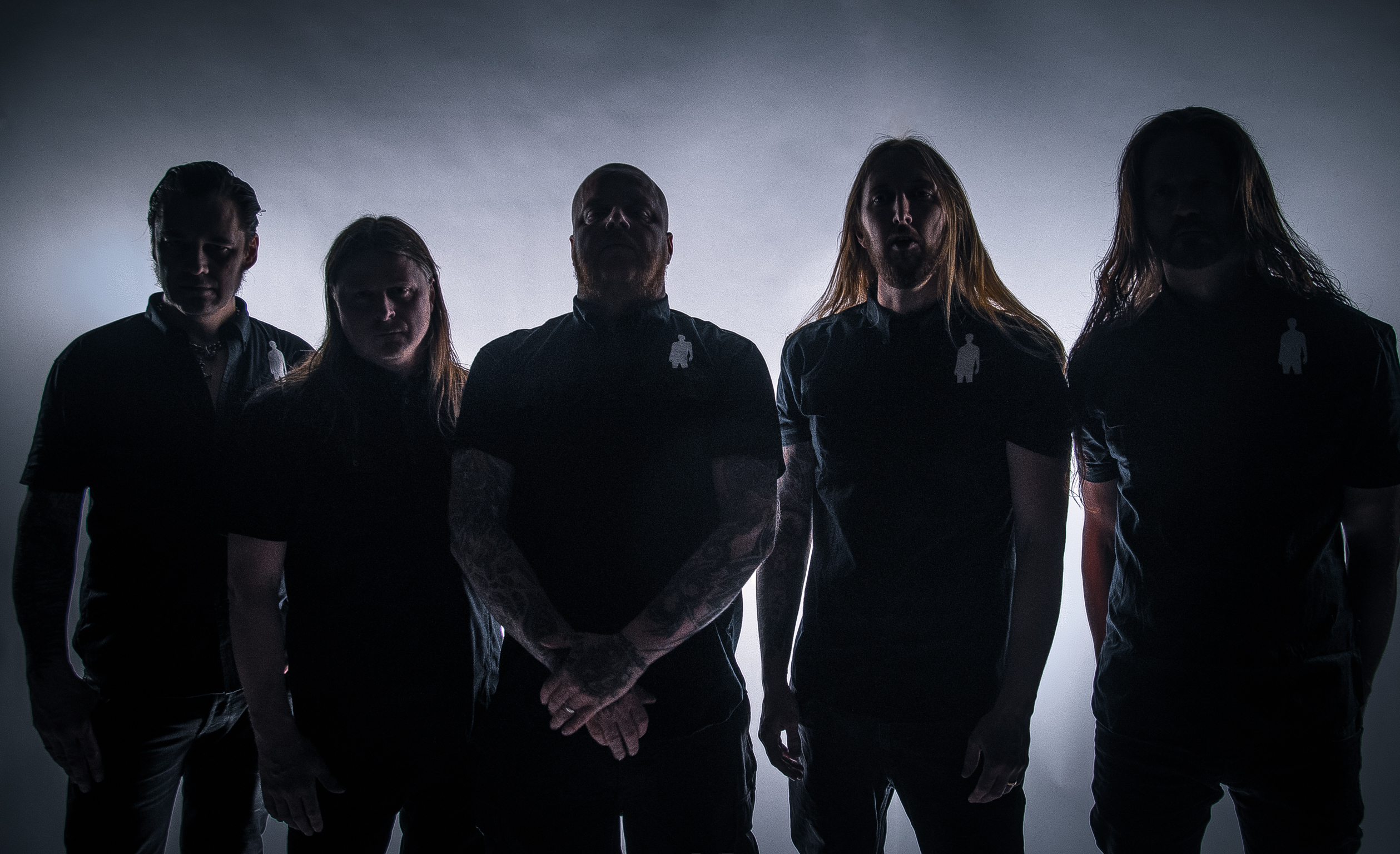 Musicvideo recording session for swedish metal band The Haunted